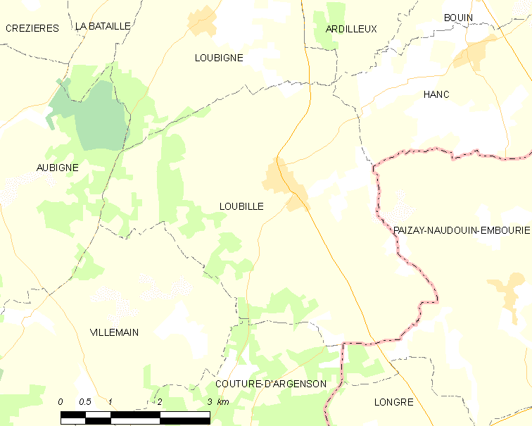 Map of French municipality Loubillé